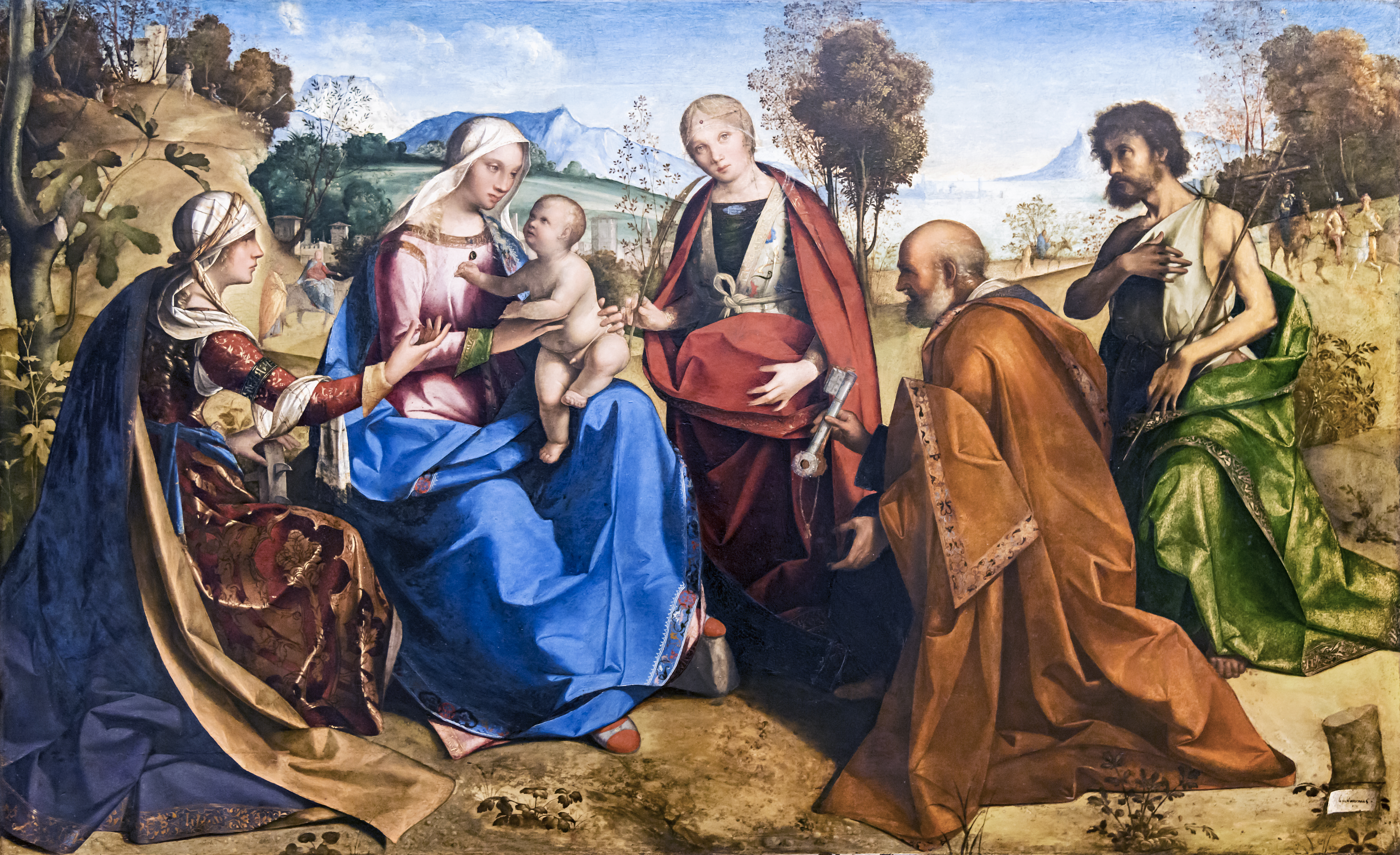 Mystical marriage of St. Catherine with the Saints Rose, Peter, John the Baptist, announcement to the shepherds, Egypt's escape and the magis on horseback.